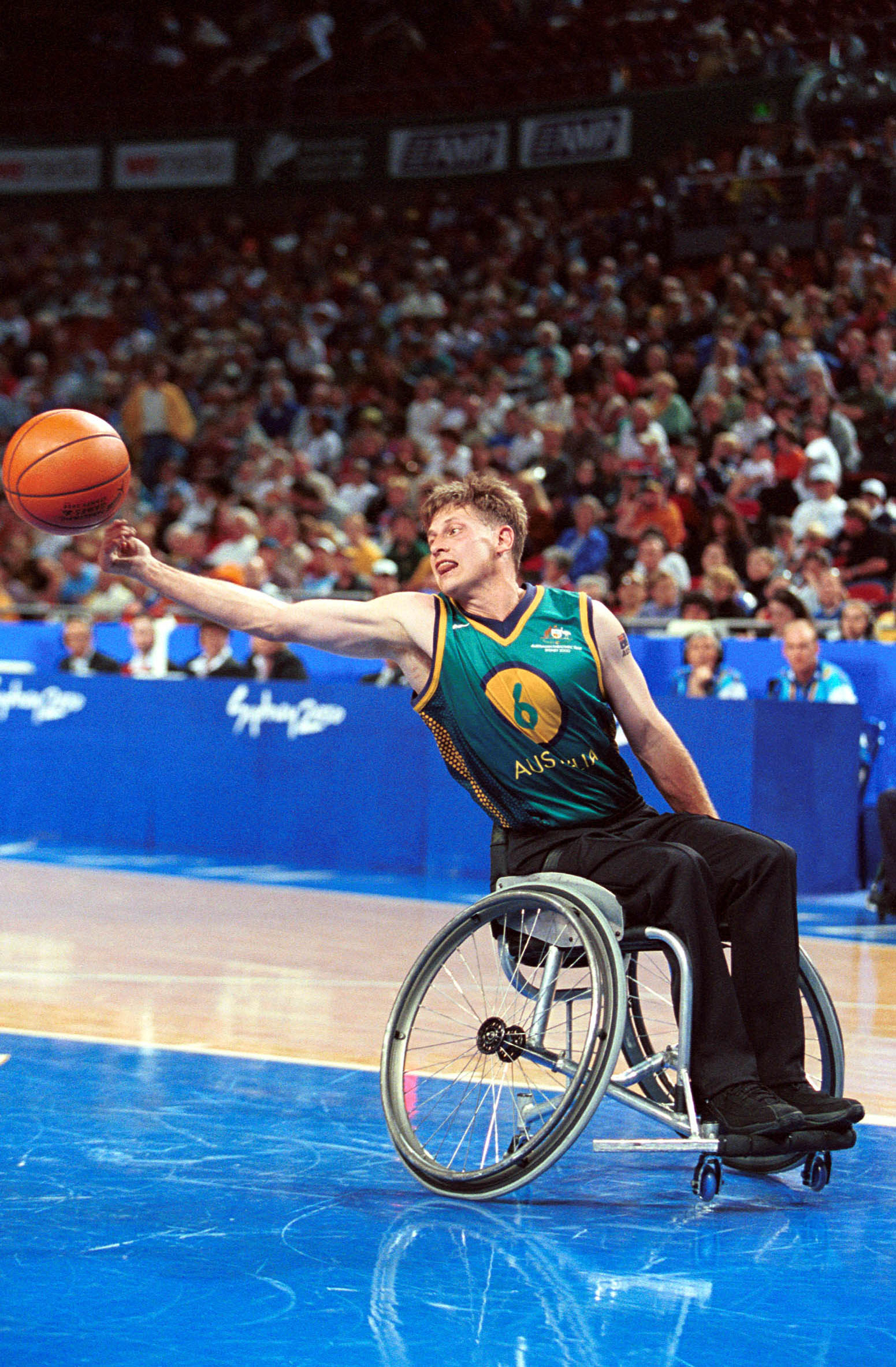 Australian wheelchair basketballer David Gould reaches for the ball during a match at the 2000 Sydney Paralympic Games